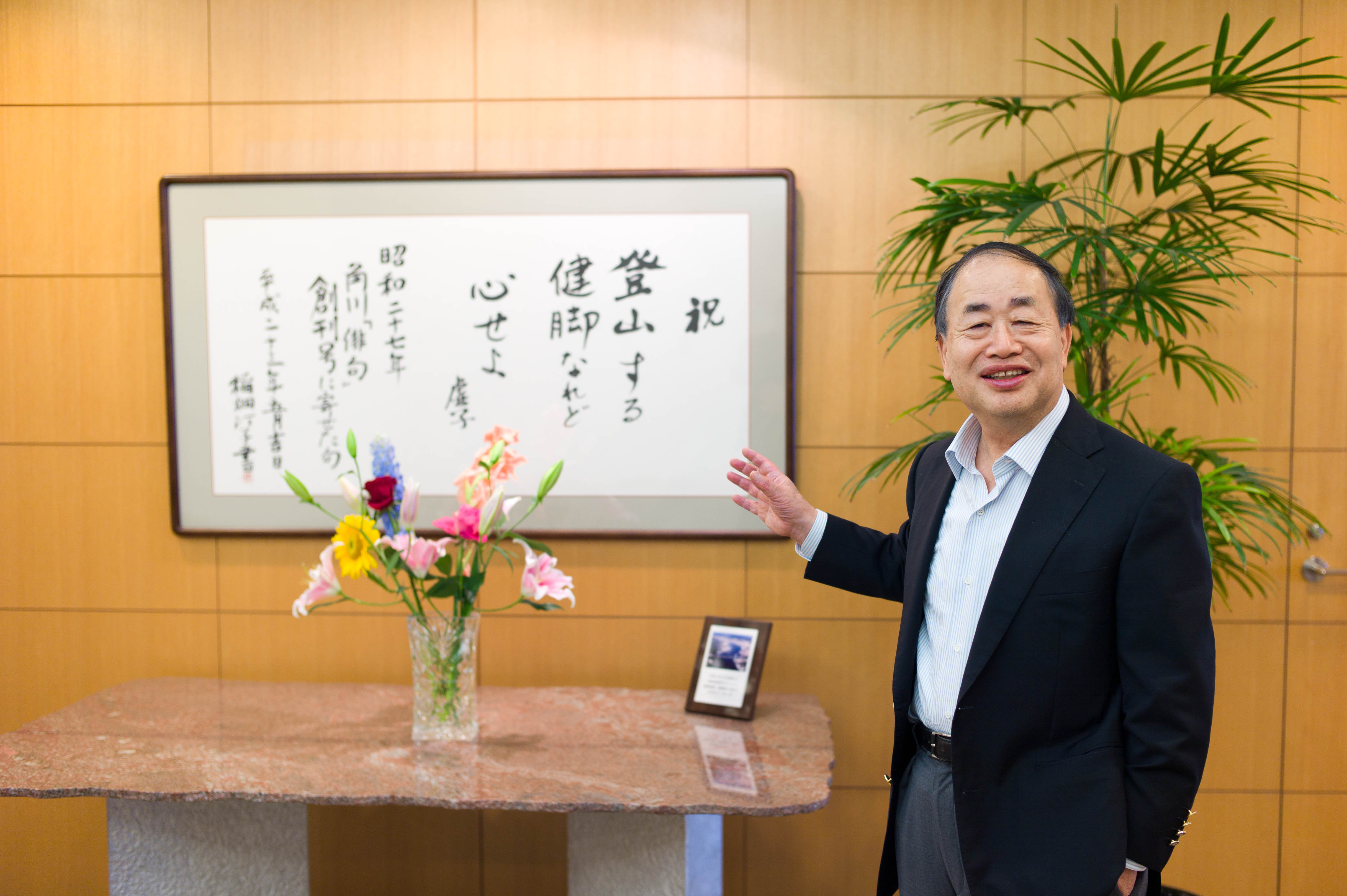 Tsuguhiko Kadokawa, Chairman of Kadokawa Group Holdings, Inc., posed for photos in Tōkyō Metropolis on June 21, 2011.